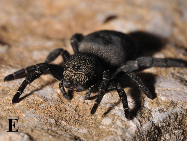 Eresus kollari female (Paloznak, Hungary)